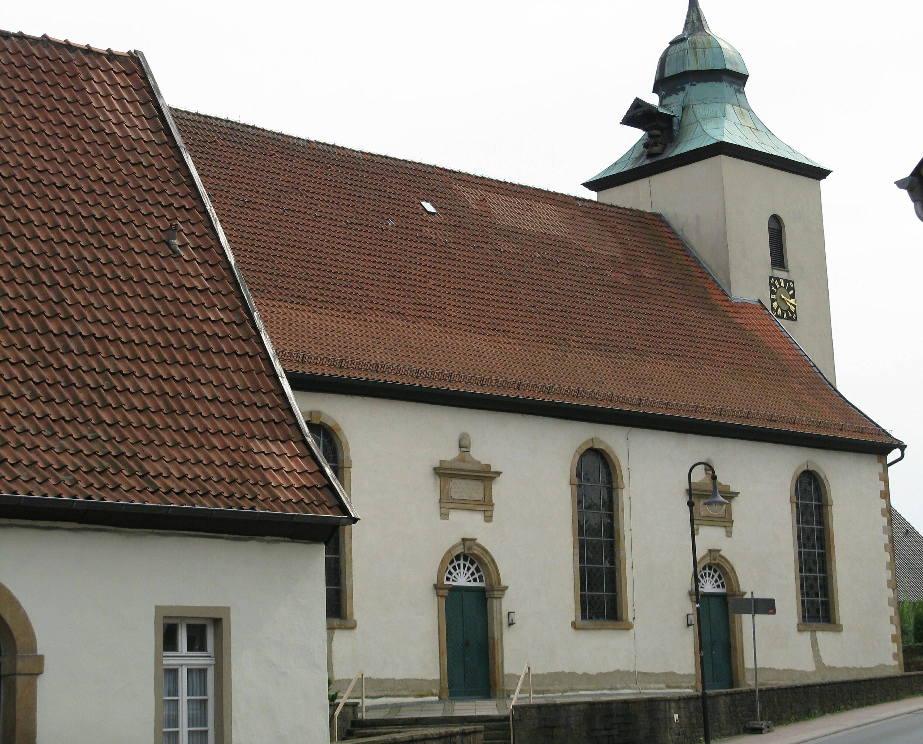 Belm: protestant Christchurch, early 19th century